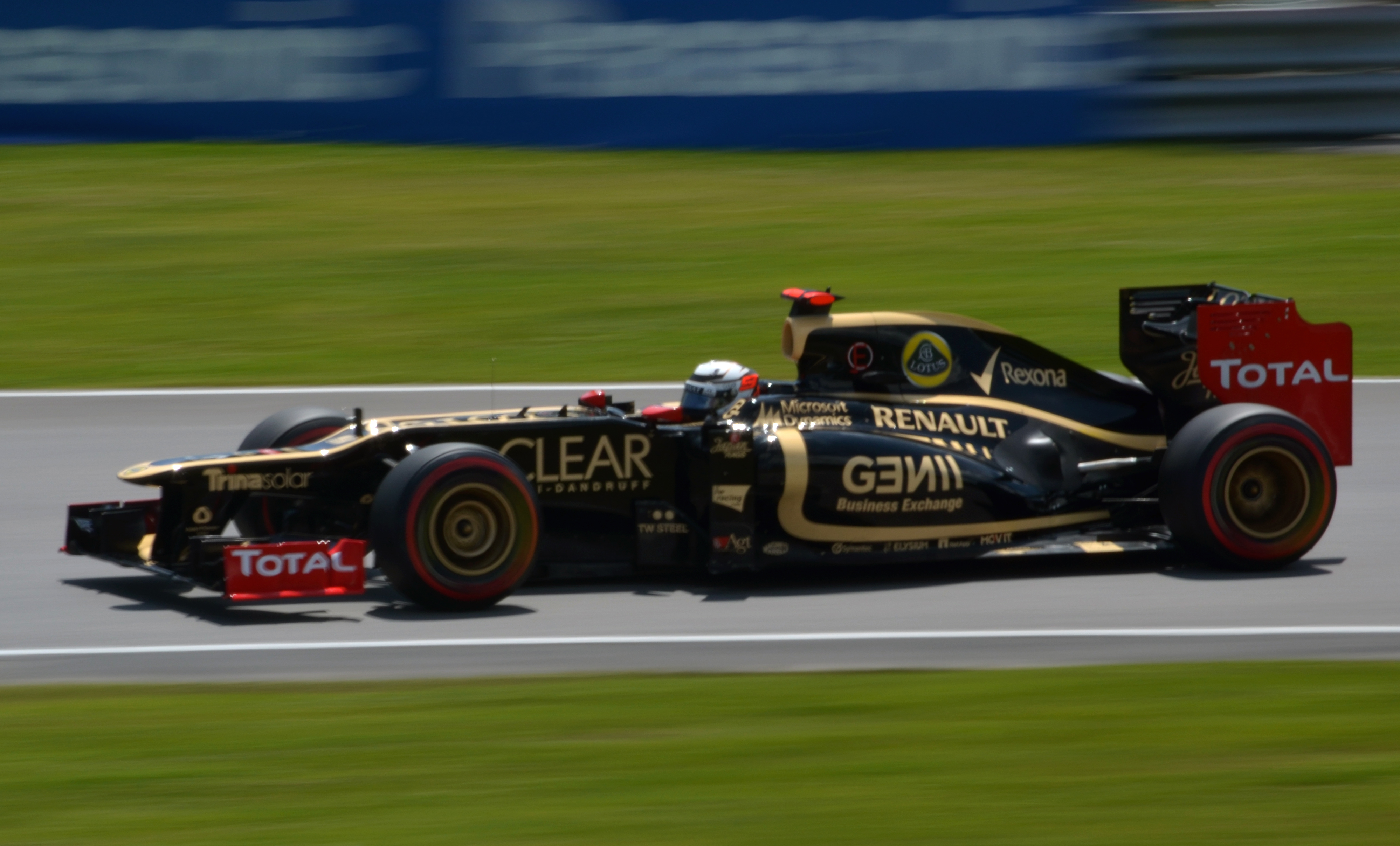 Kimi Raikkonen in the Lotus - Renault E20 at turn 9 of Circuit Gilles Villeneuve during qualifying for the 2012 Canadian Grand Prix.